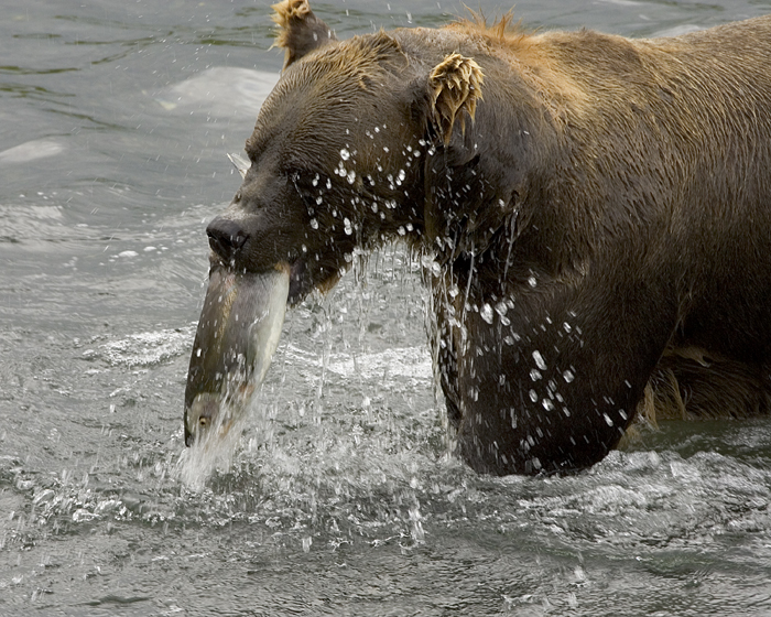 Brown bear (Ursus arctos) feeding on salmon, taken at the Frazer Lake weir, Kodiak National Wildlife Refuge.